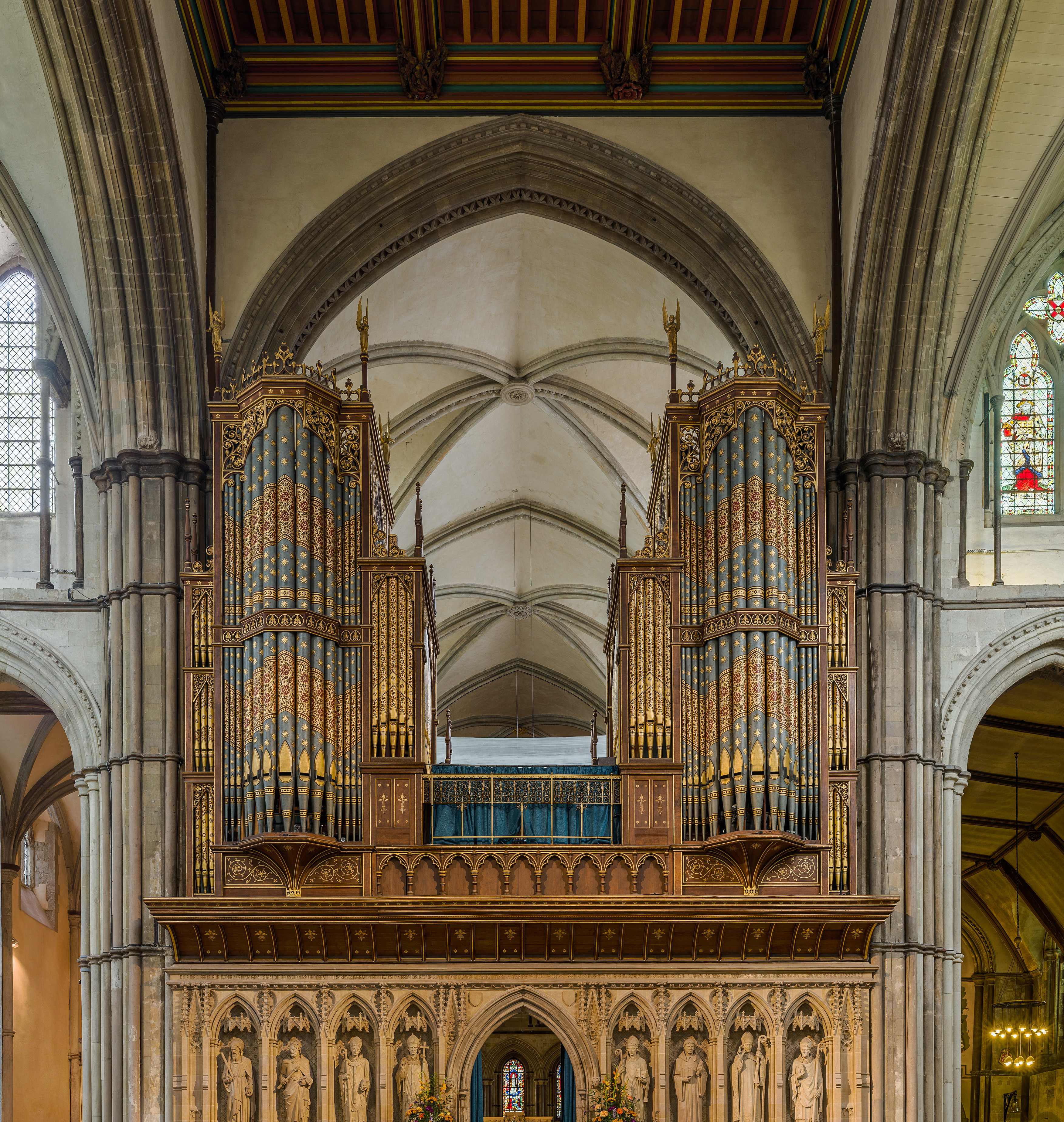 The organ of Rochester Cathedral, perched above the rood screen separating the nave from the choir in Kent, England.